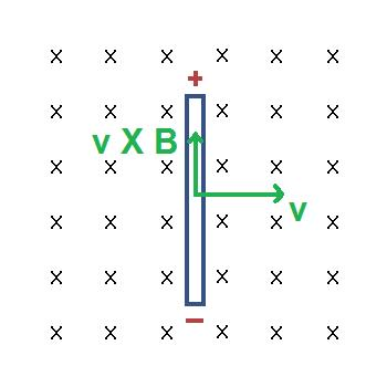 a conductor moving in a uniform magnetic field